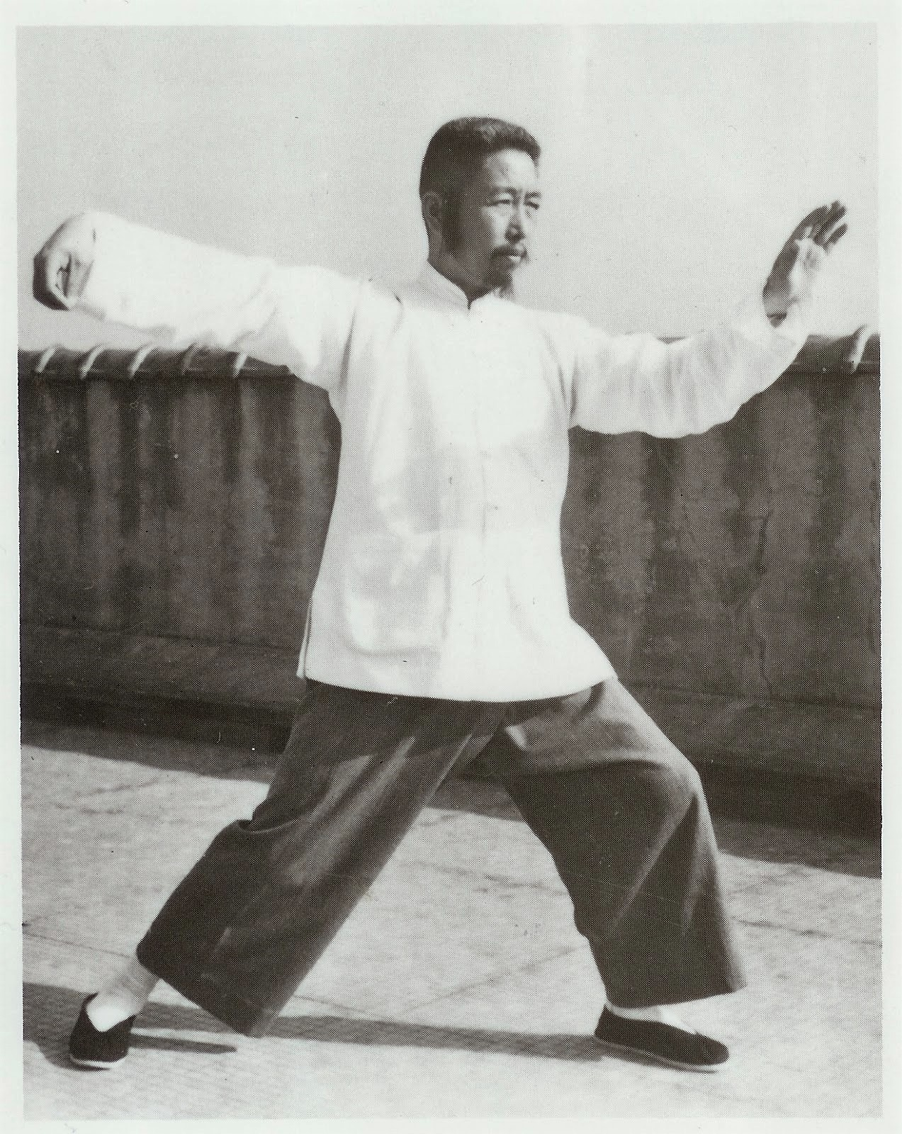 Cheng Man-chi'ng. Tai Chi Chuan teacher and creator of Yang Style Short Form (37 Postures).